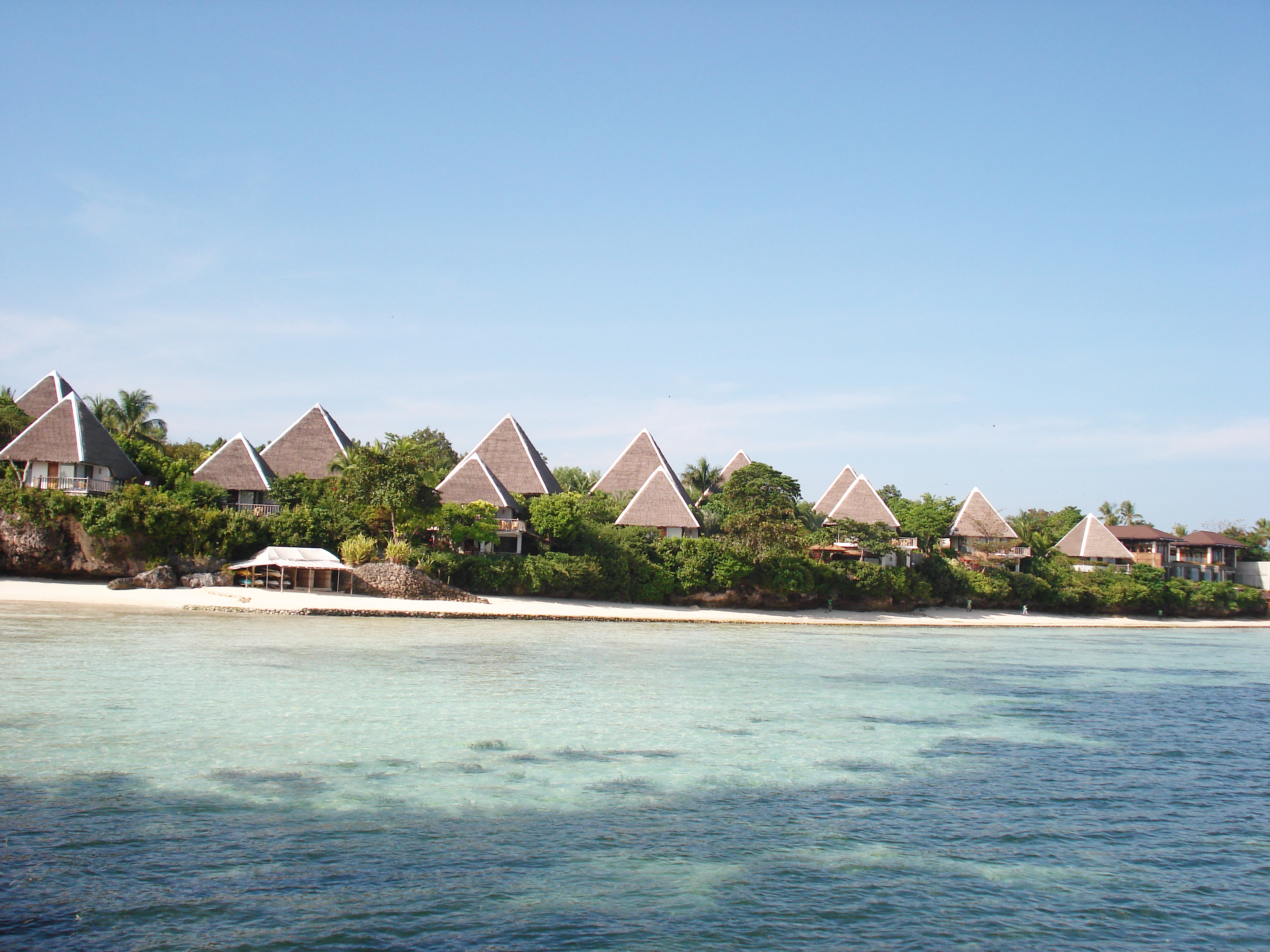 Panglao Island Natures Park and Spa.